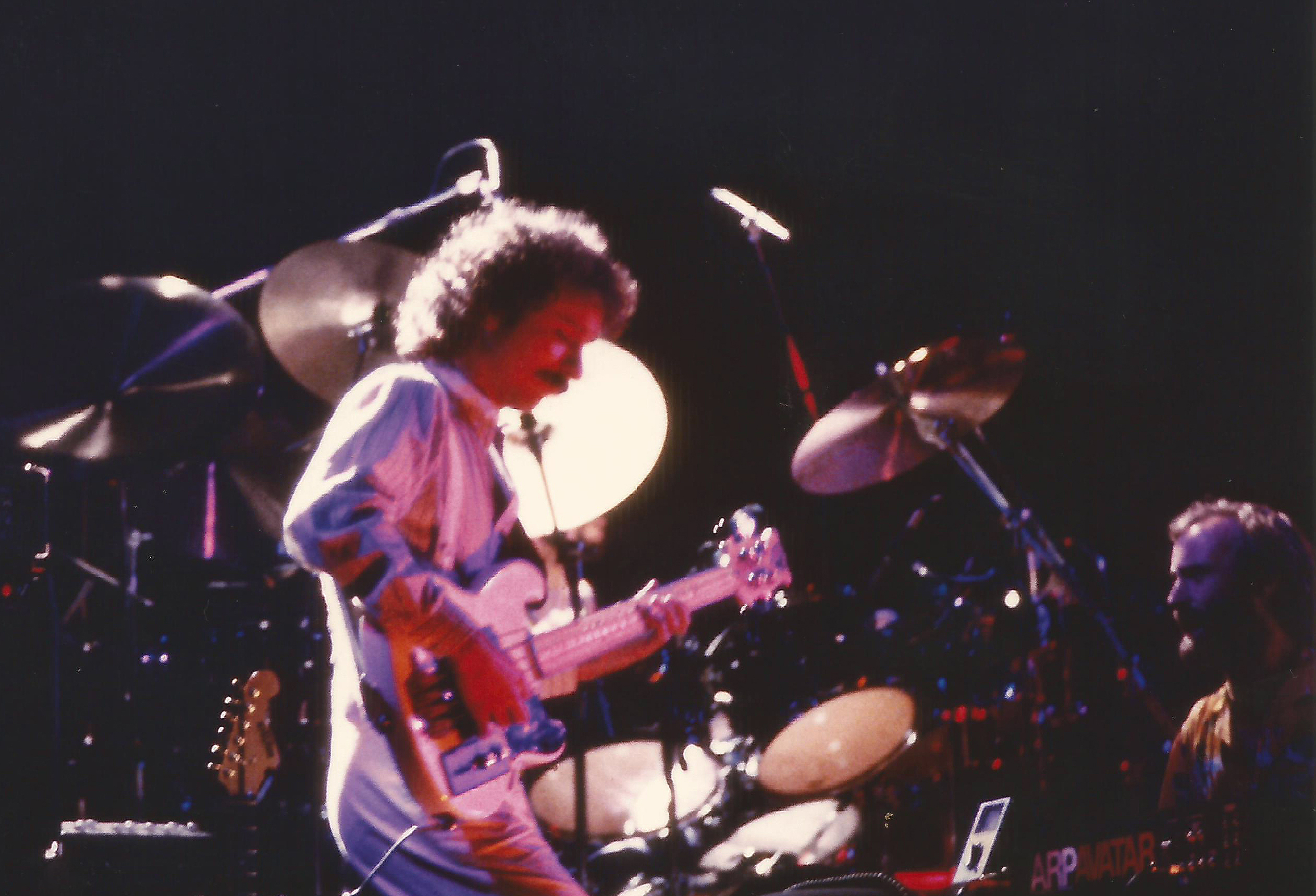 Daryl Stuermer on stage with Genesis playing a Shergold Bass, Empire Theatre, Liverpool